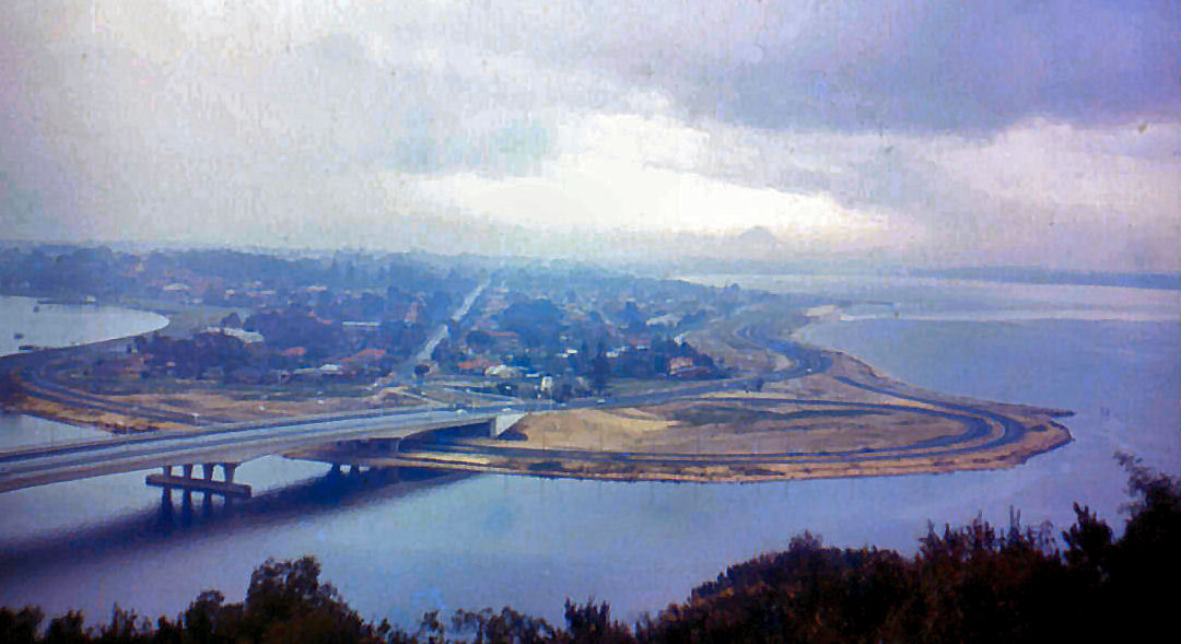 Photo taken from King's-Park. The Narrows, and Narrows Bridge - Perth, WA Until now my most viewed image, 1122 views (17.July 2006)